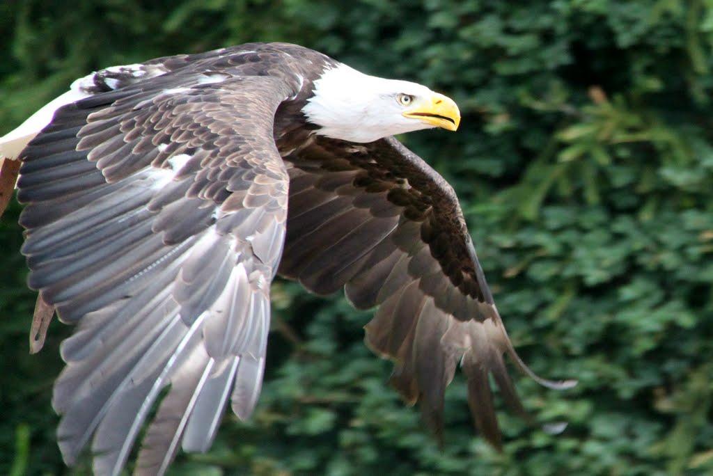 Bald_eagle,_vogelpark_Steinen,_Germany.jpg